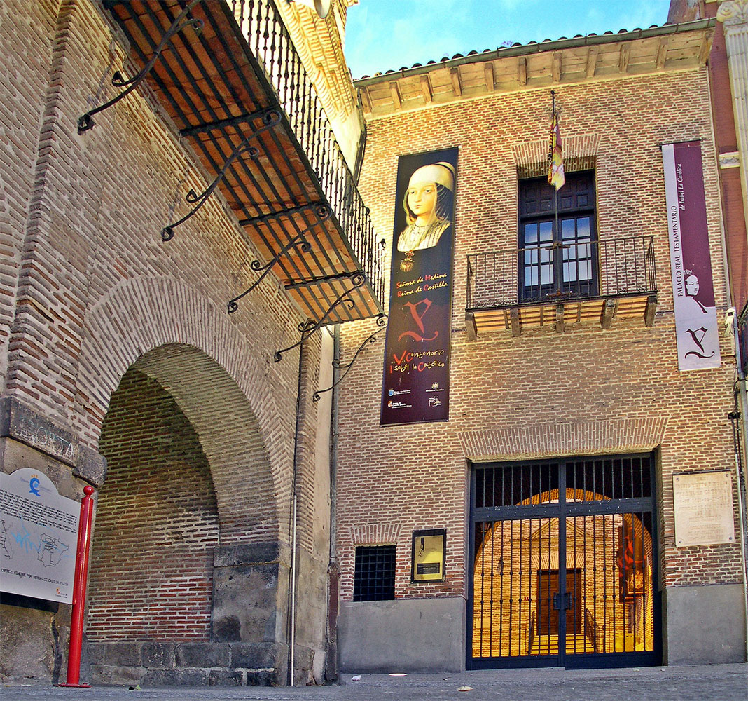 The Royal Palace of Medina del Campo (Valladolid province, spain) was the residence of the royal family in the time of Fairs. In this palace will and death of Isabel la Católica (Queen of Castile), 26 November 1504 (for this reason it is also called Palacio Testamentario, Testamentary Palace). The Palace was started in the 14th Century and was enlarged in several times. It was at one time much larger than the present-day building, that is a replica.